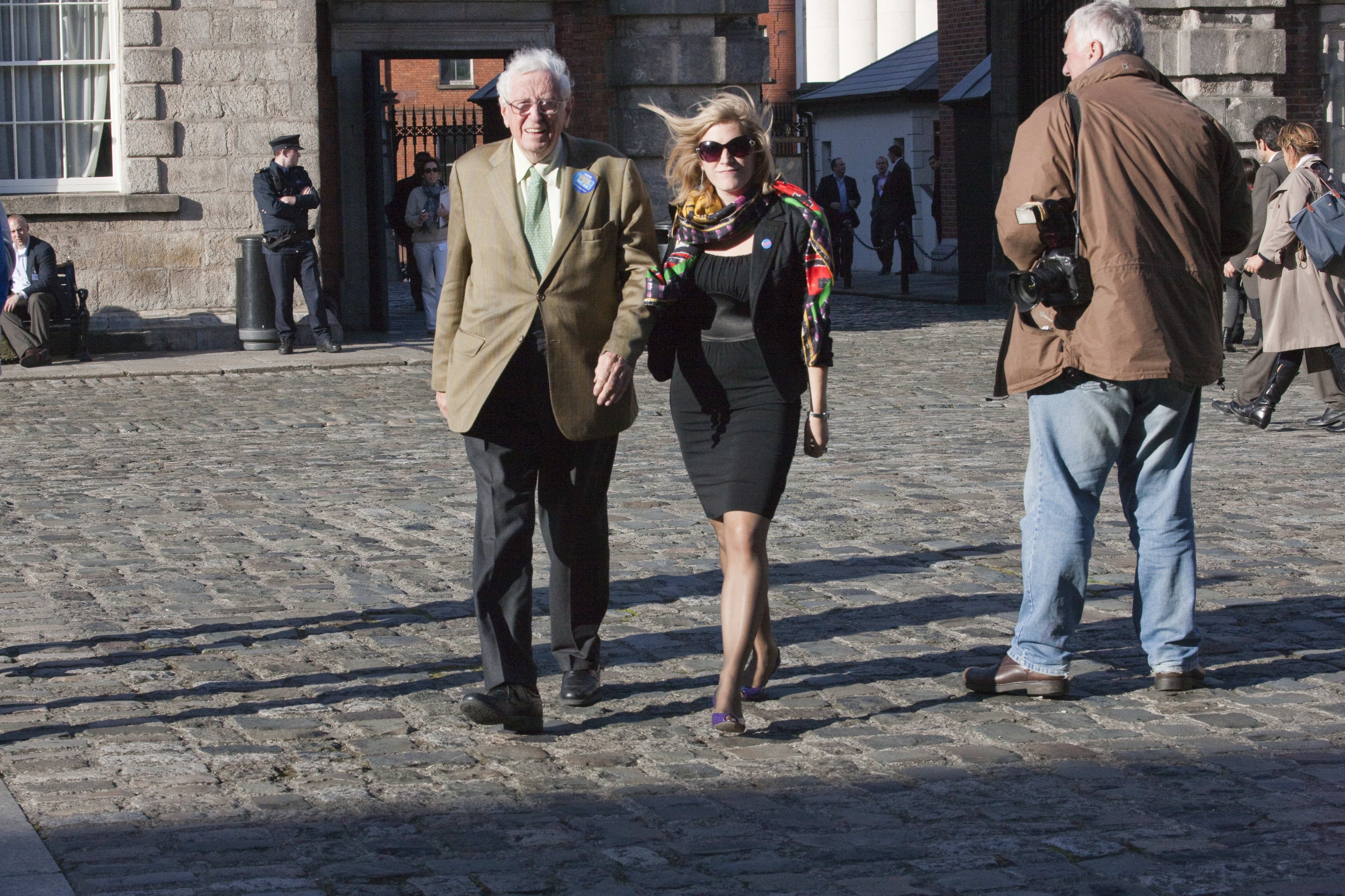 Garret FitzGerald arrives for The Lisbon Treaty Count